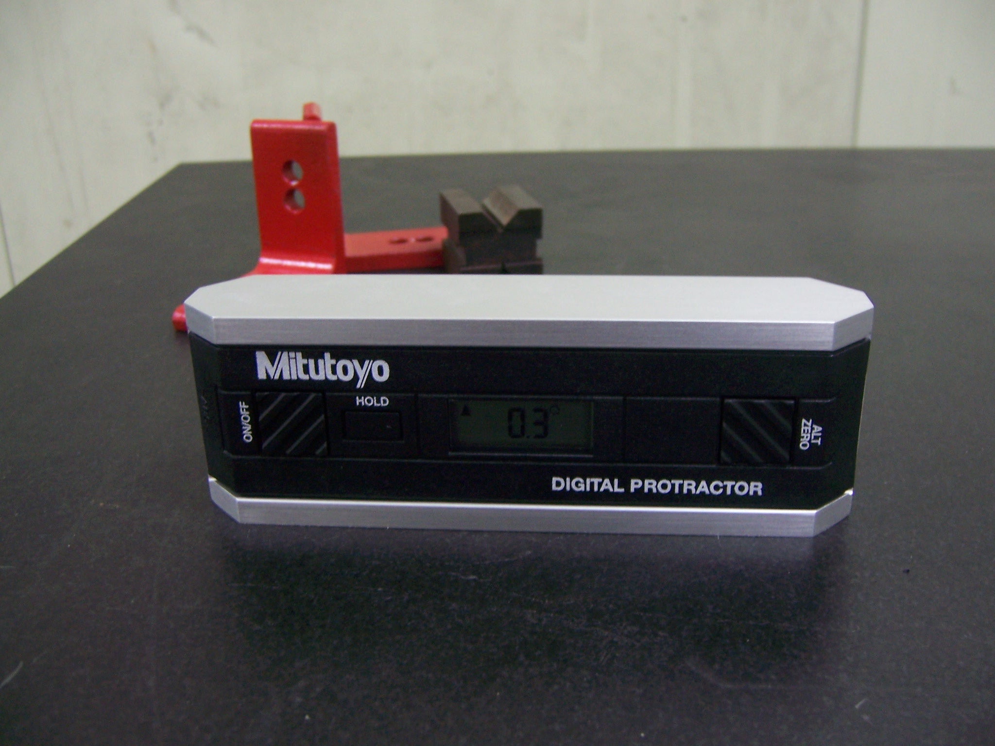 Mitutoyo digital protractor